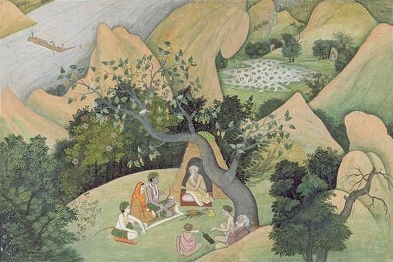 Rama, Sita, and Lakshman at the Rishi Bharadwaj ashram, dispersed Ramayana manuscript, ca. 1780. India (Punjab Hills, Kangra) Ink and opaque watercolor on paper